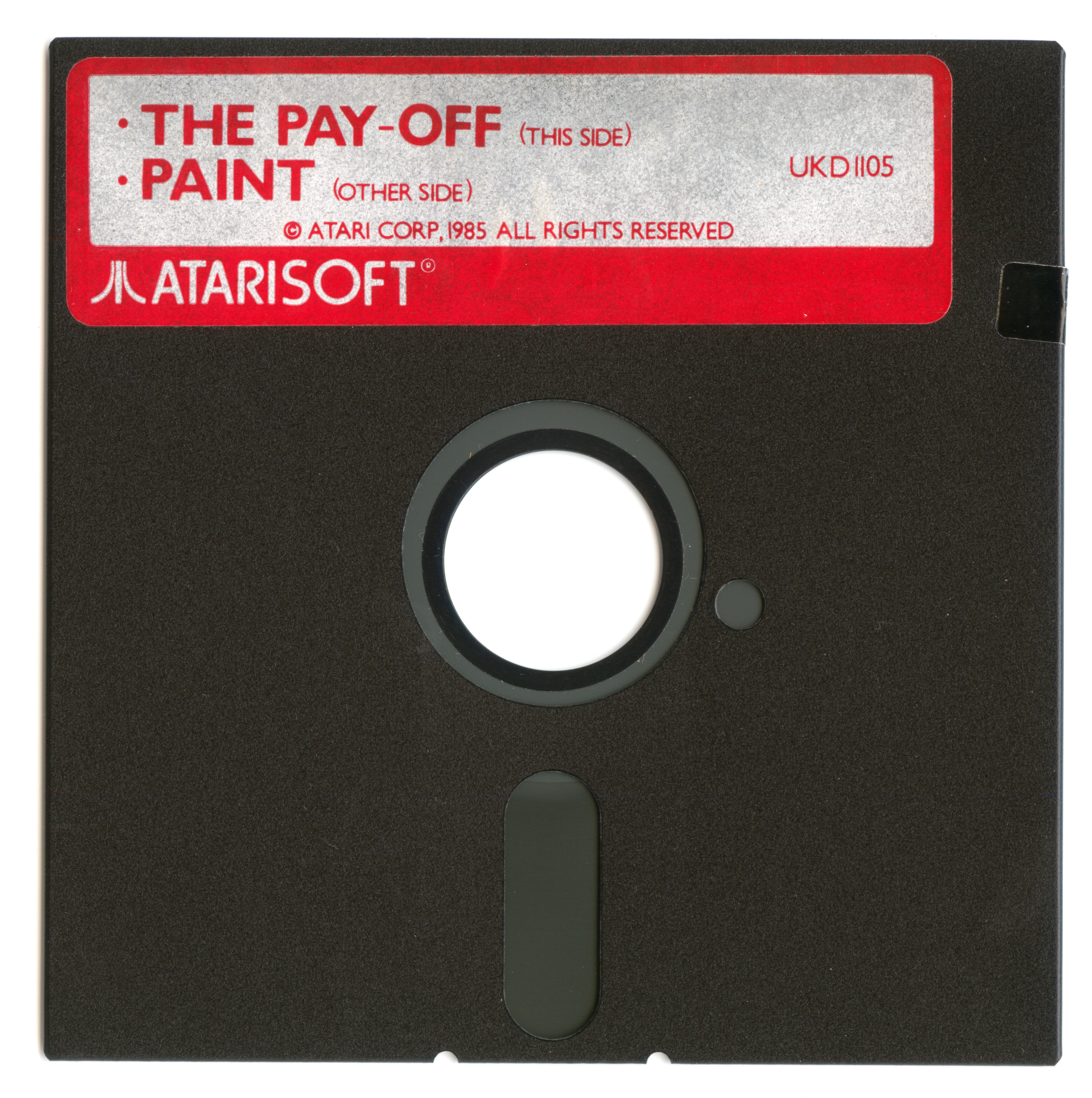 Atarisoft Paint and The Pay-Off Floppy Disk from Atari Corp. (Code: UKD1105 / UK D 1105)